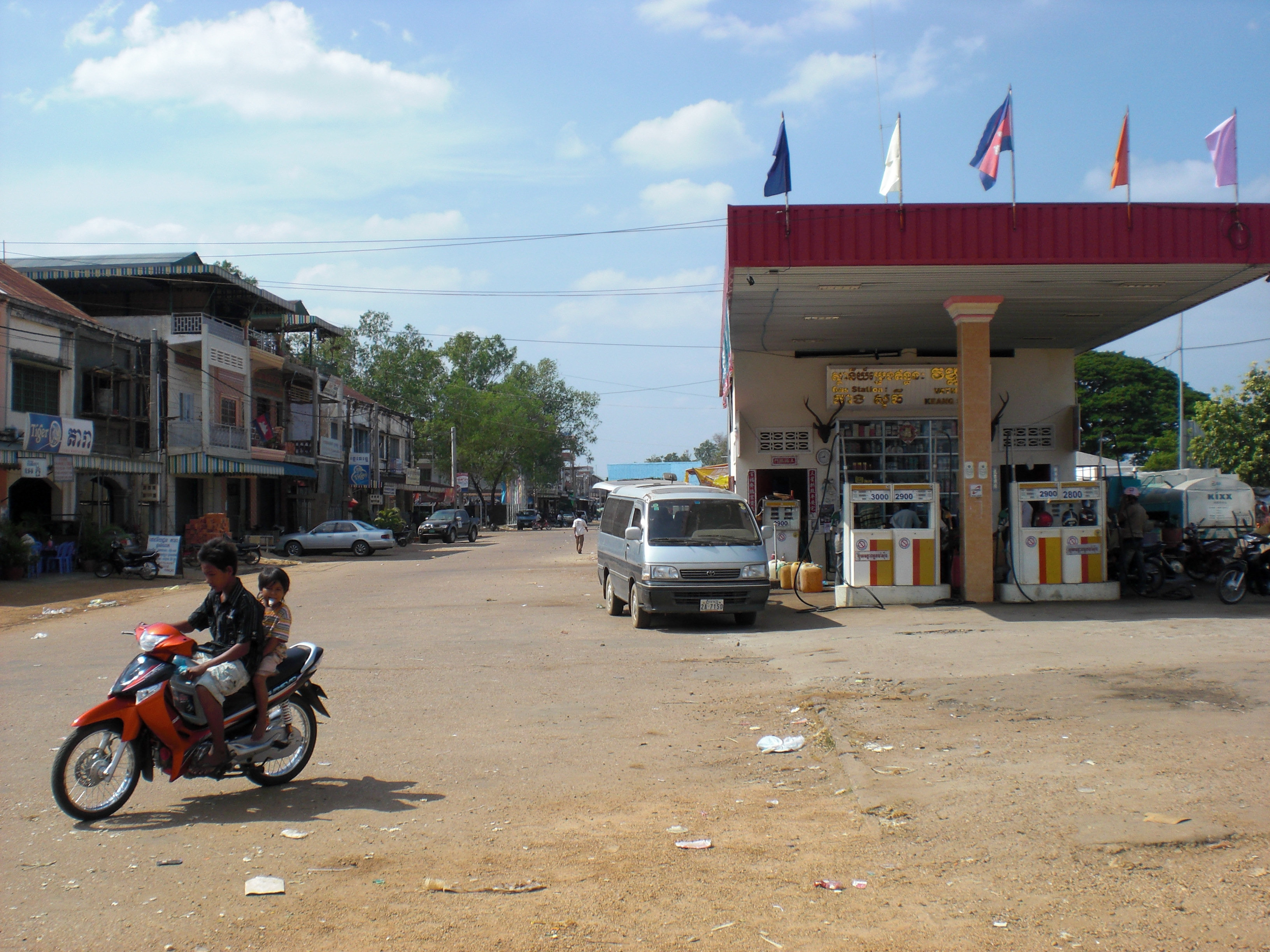 Petrol station downtown Stung Treng, Cambodia